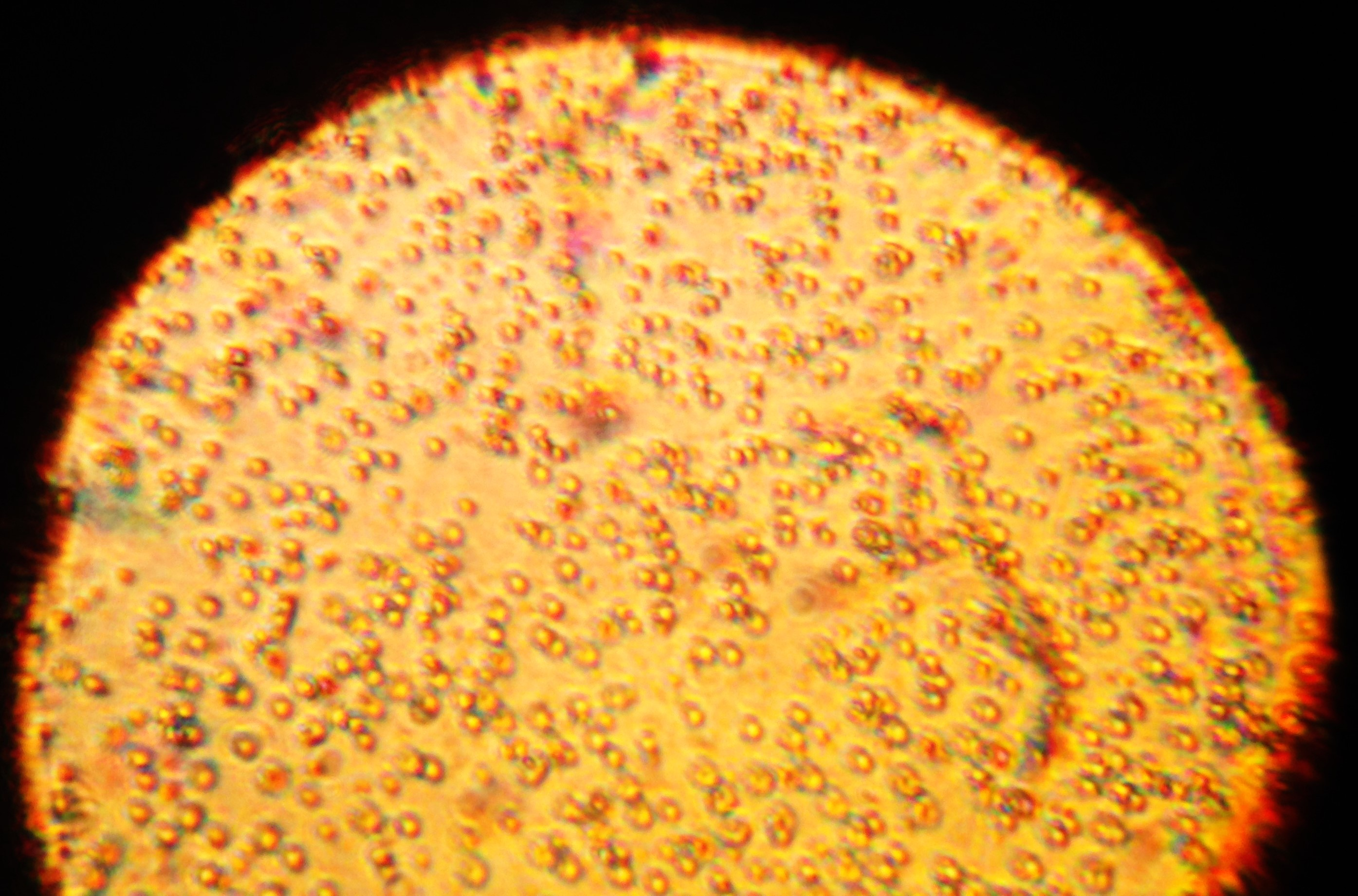 This image illustrates a sample of breast milk viewed by light microscope (300x magnification).